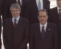 Roberto Castelli and Giuseppe Pisanu, members of the G8 Justice and Home Affairs Ministers meeting pose for photos in Washington, D.C. on May 11, 2004.